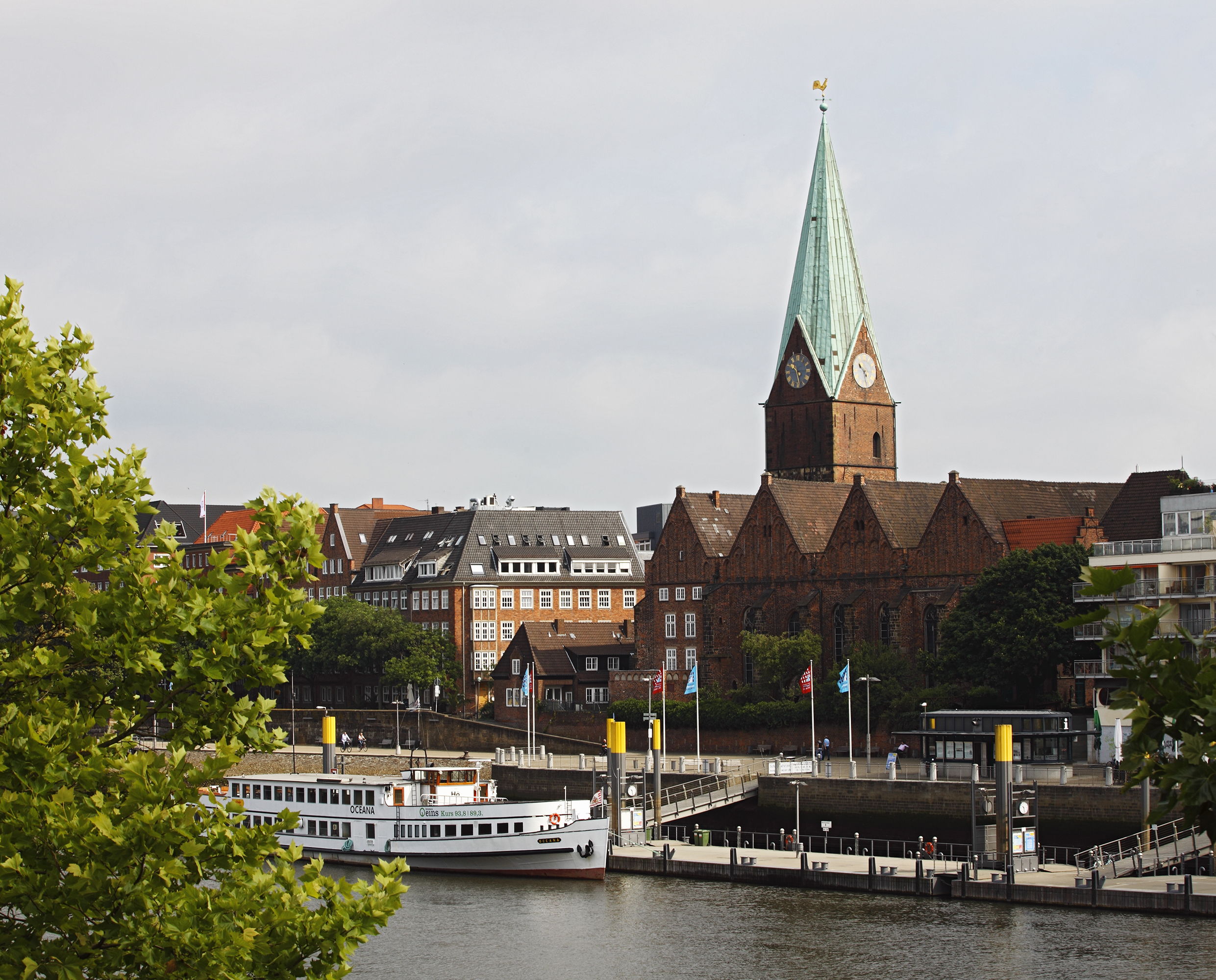 Saint Martin's Church, Bremen, Germany. Published: Nikolay Yagunov, Tatiana Yagunova. Hanse centuries later. Germany. Poland. Russia. Lithuania: the album of photos — Kaliningrad, 2014. — Volume I. — 205 p. — 2000 сopies. — ISBN 978-83-7823-474-6. — P. 51.